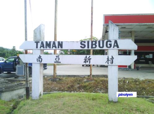 Taman Sibuga Name Plate, Sandakan, Sabah